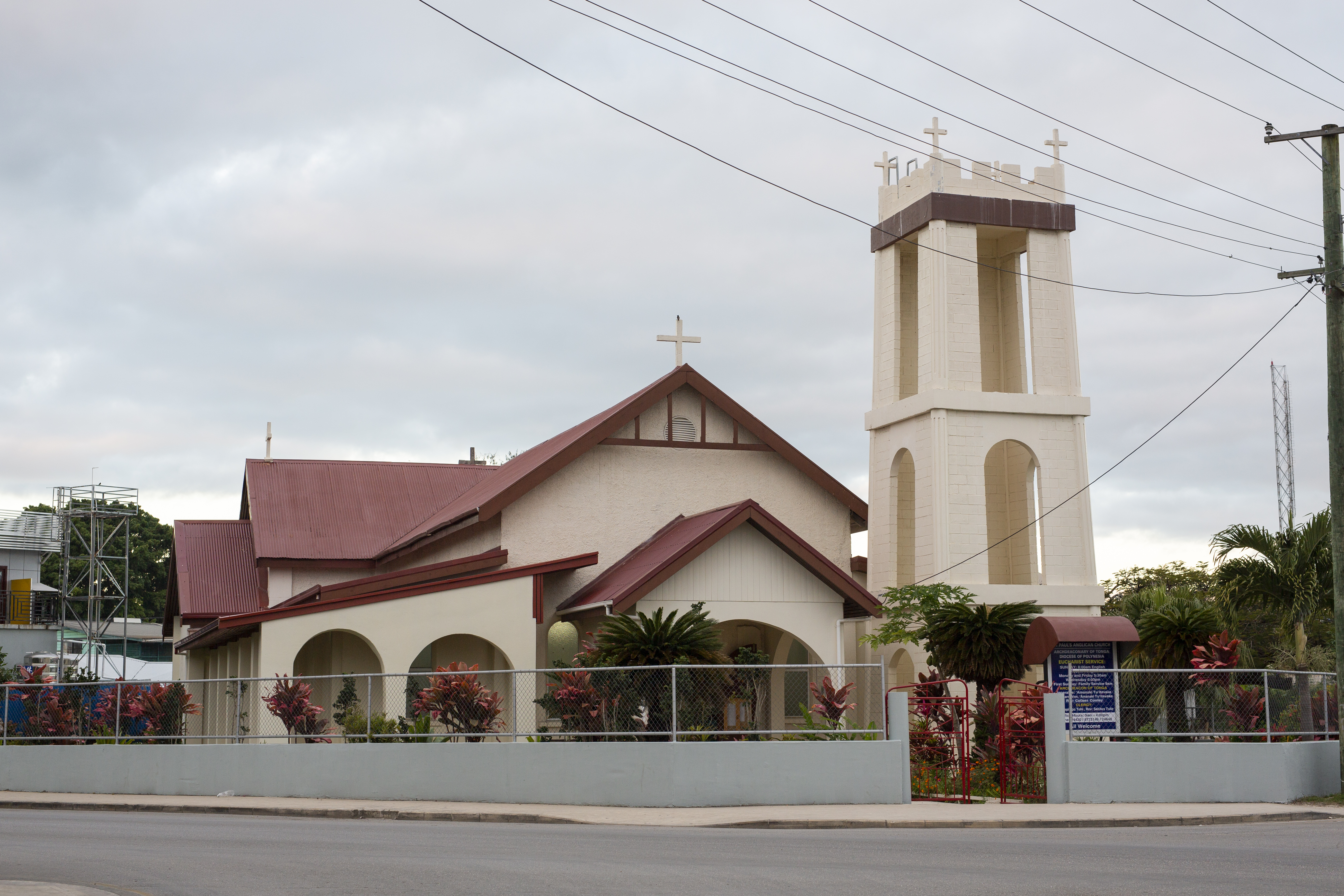 Nuku'alofa, Tonga